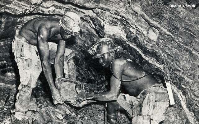 The image is a photograph of two African miners working in an underground copper mine in Northern Rhodesia some time in the early 1950s.